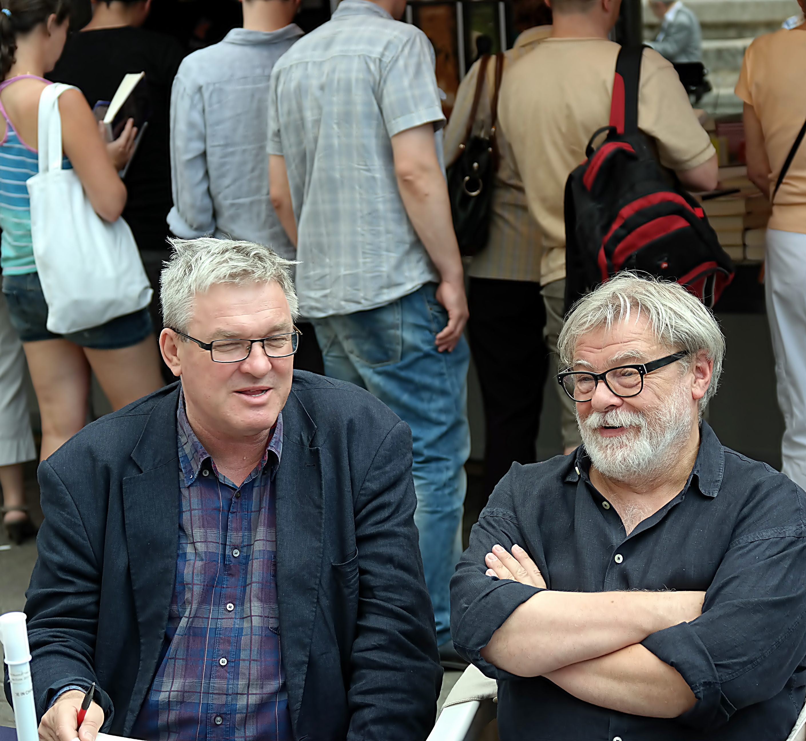 Pál Závada and Lajos Parti Nagy. Budapest, Vörösmarty Square.